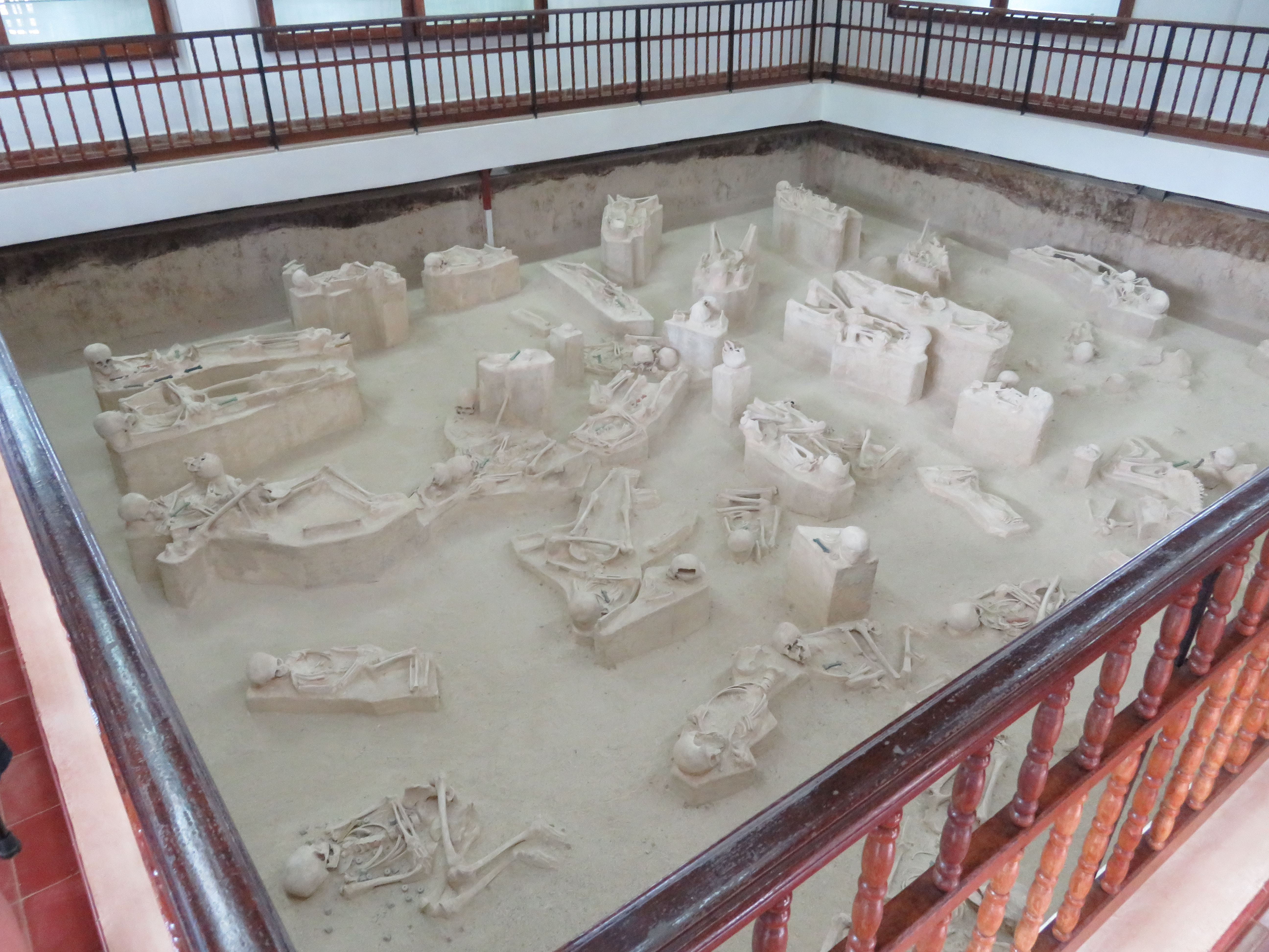 Exposed Burial site at El Chorro De Maita Cuba dating to early 16th century shows about 62 individuals, mostly Taino buried in a fetal position